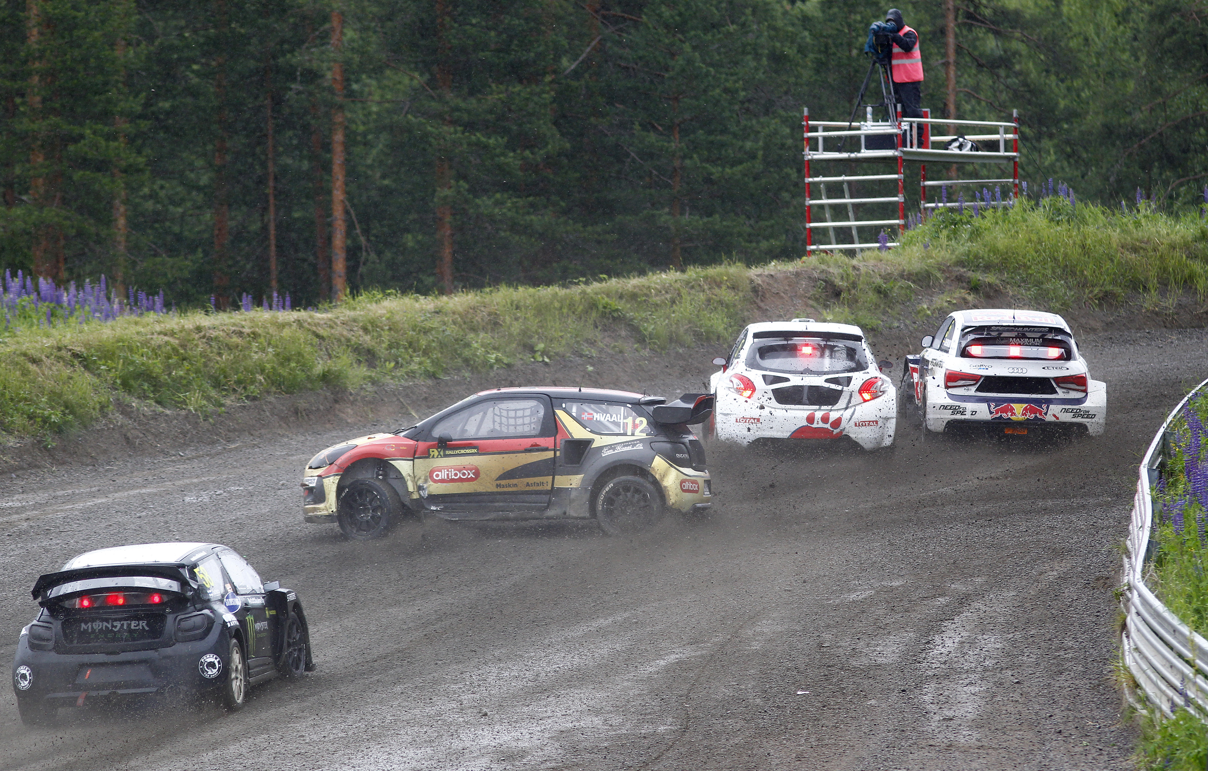 2014 FIA World Rallycross Championship Round 04 Kouvola, Finland 28th & 29th June 2014 Worldwide Copyright: EKS/McKlein